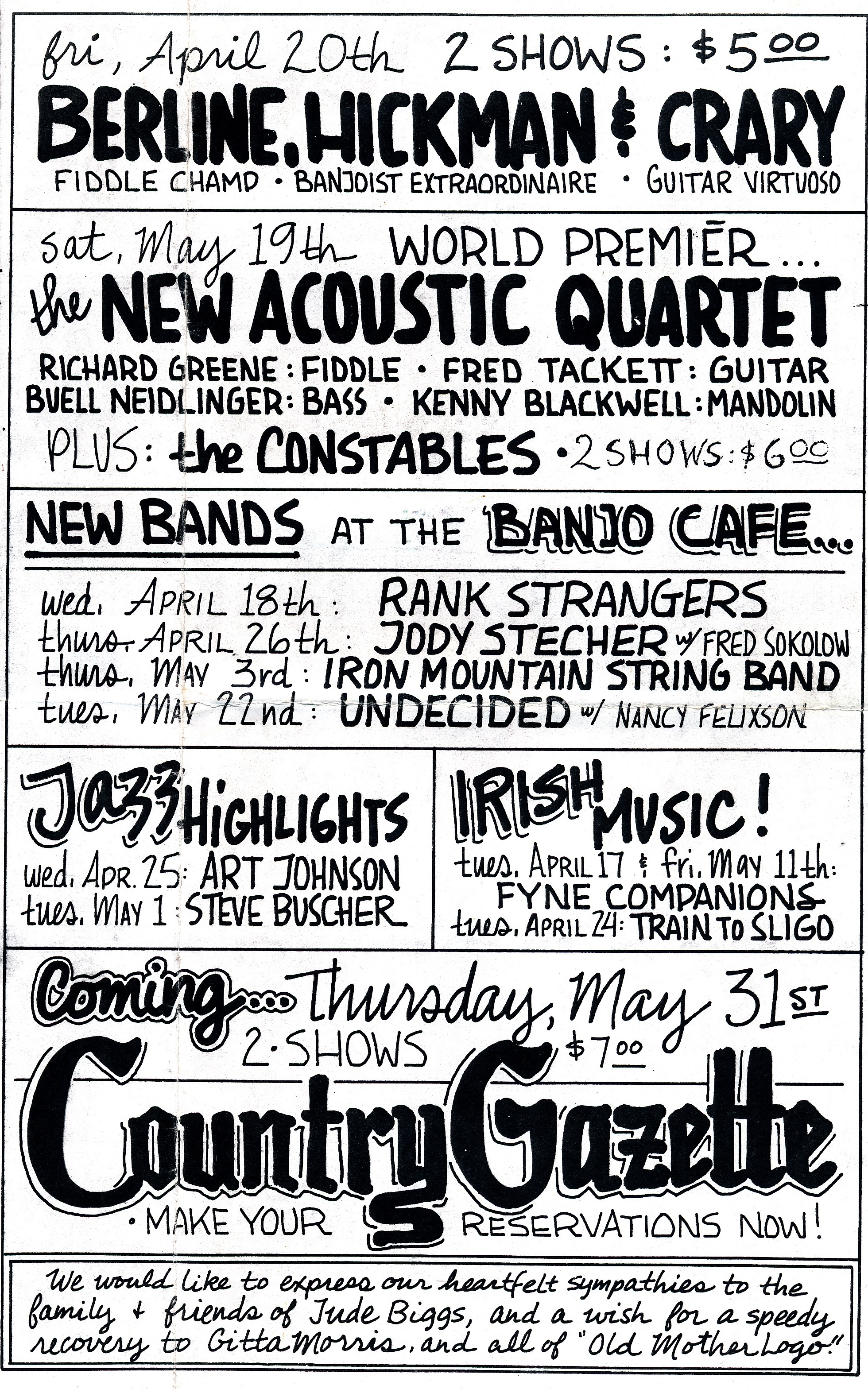 Bands from all over the country come to play during the final weeks of The Banjo Cafe: The Osborne Brothers, The Country Gazette, Berline-Hickman-Crary, Richard Greene, The Constables, Jody Stecher and Fred Sokolow.